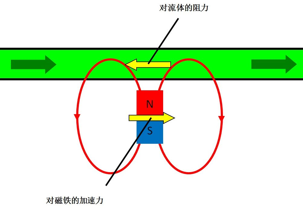 Dandan Jian, TU-Ilmenau